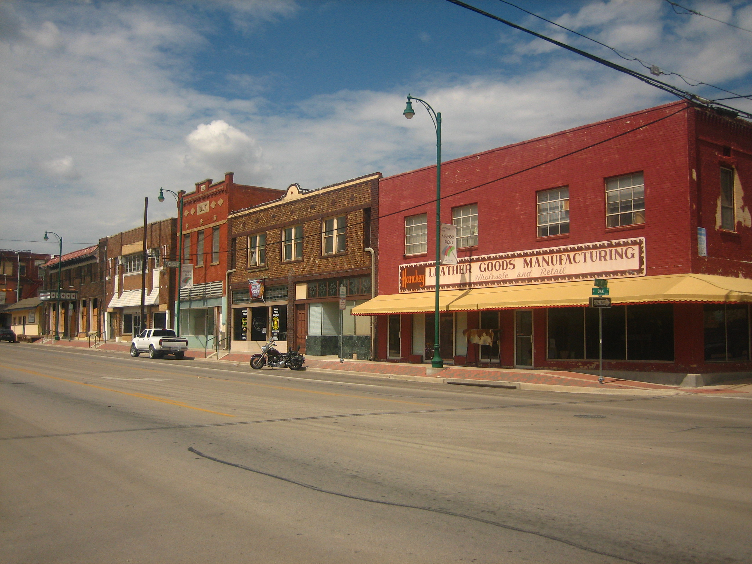 I took photo in July 2008.